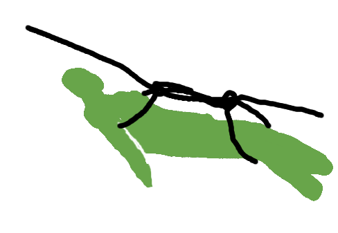 Illustration of the Fireman's chair knot used as a sling.